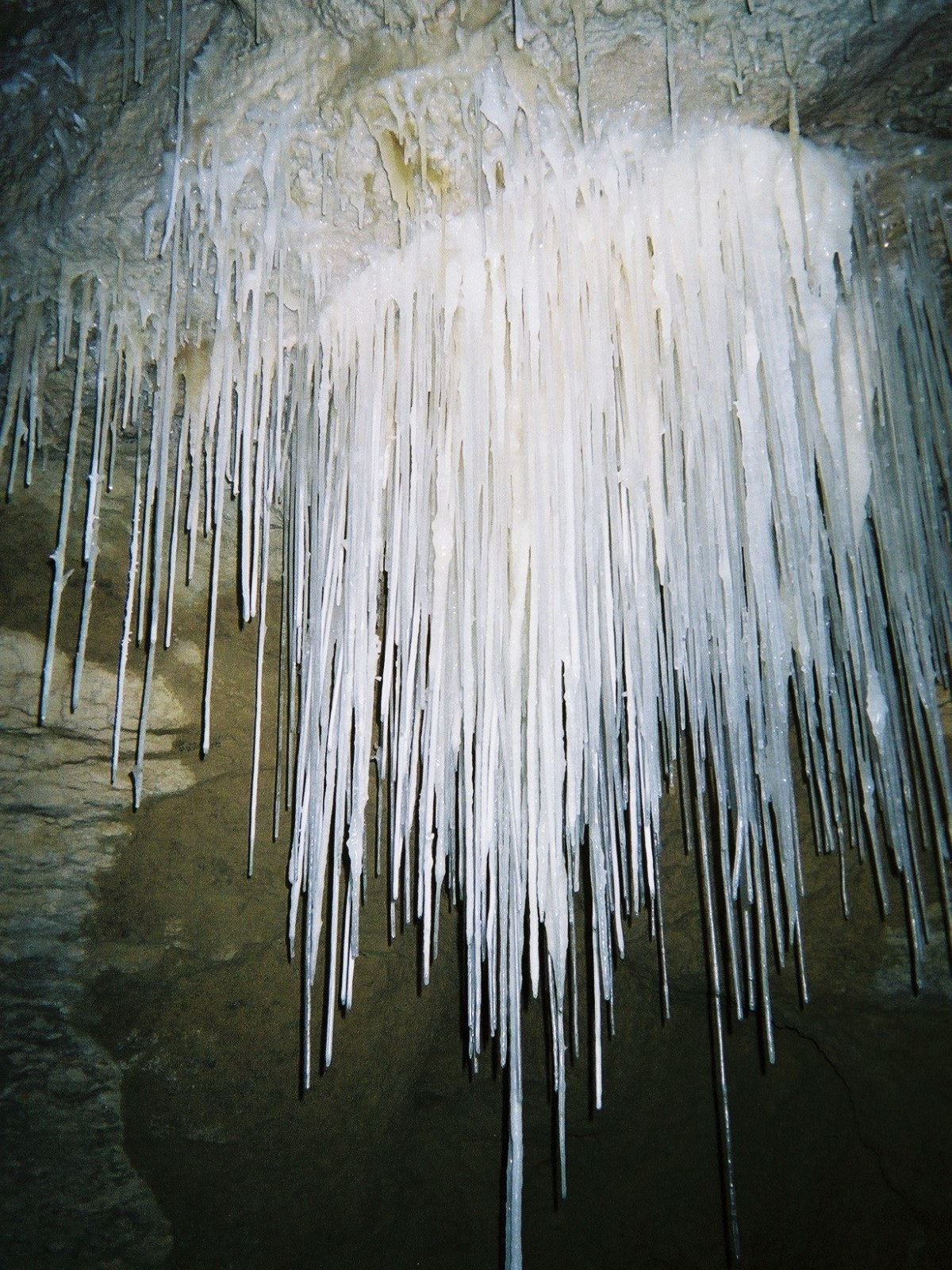 Straws (statalctite precursors) in Gardner's Gut cave in New Zealand. The longer straws visible here have a length of about 50 cm.